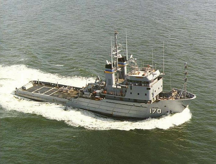 United States Navy fleet ocean tug USNS Mohawk (T-ATF-170)